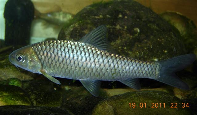 China, Guizhou province,2011-01-19,150mm, by Zeng zhi xuan